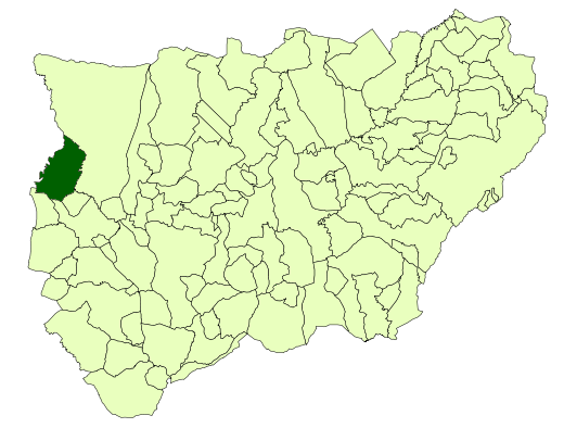 Situation of the municipality of Marmolejo (Jaén, Spain).